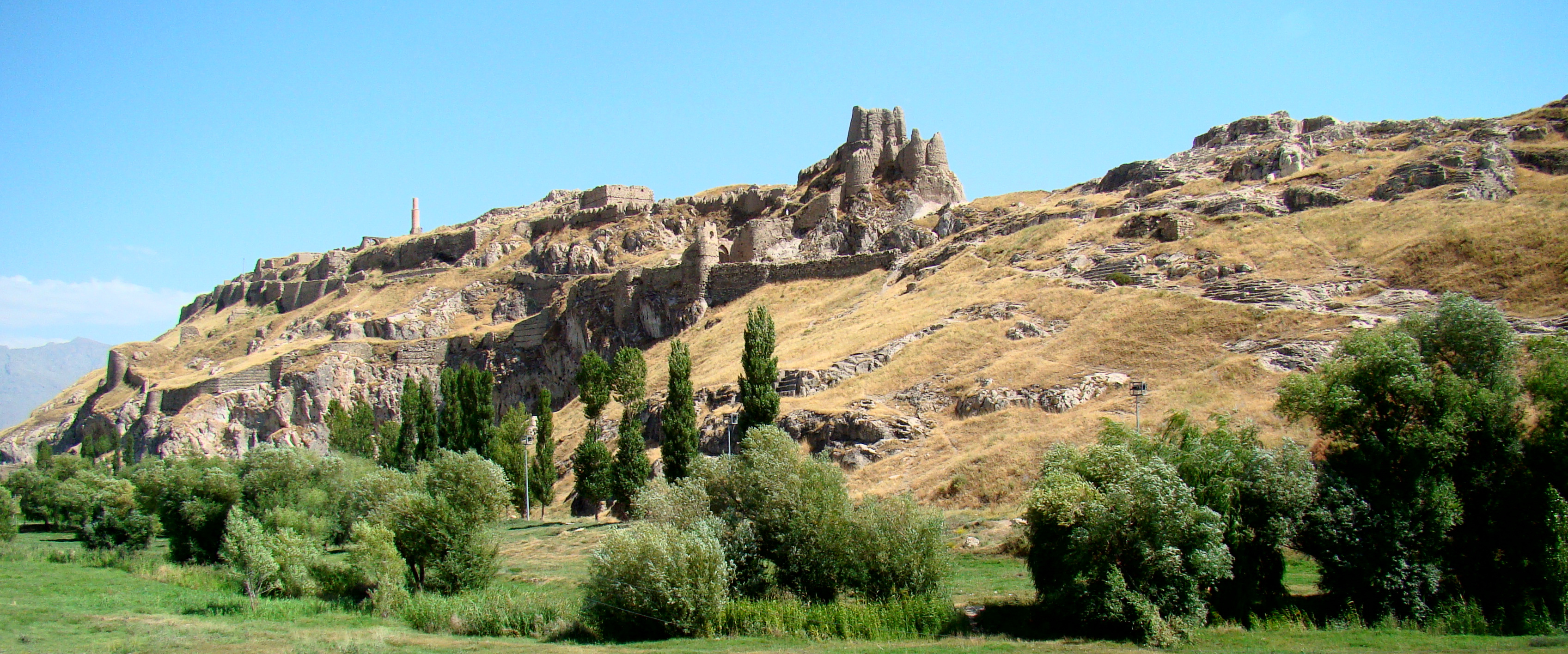 The ancient fortress a few kilometres west of present-day Van in the eastern-most part of Turkey, originally the seat of the Urartian kingdom.